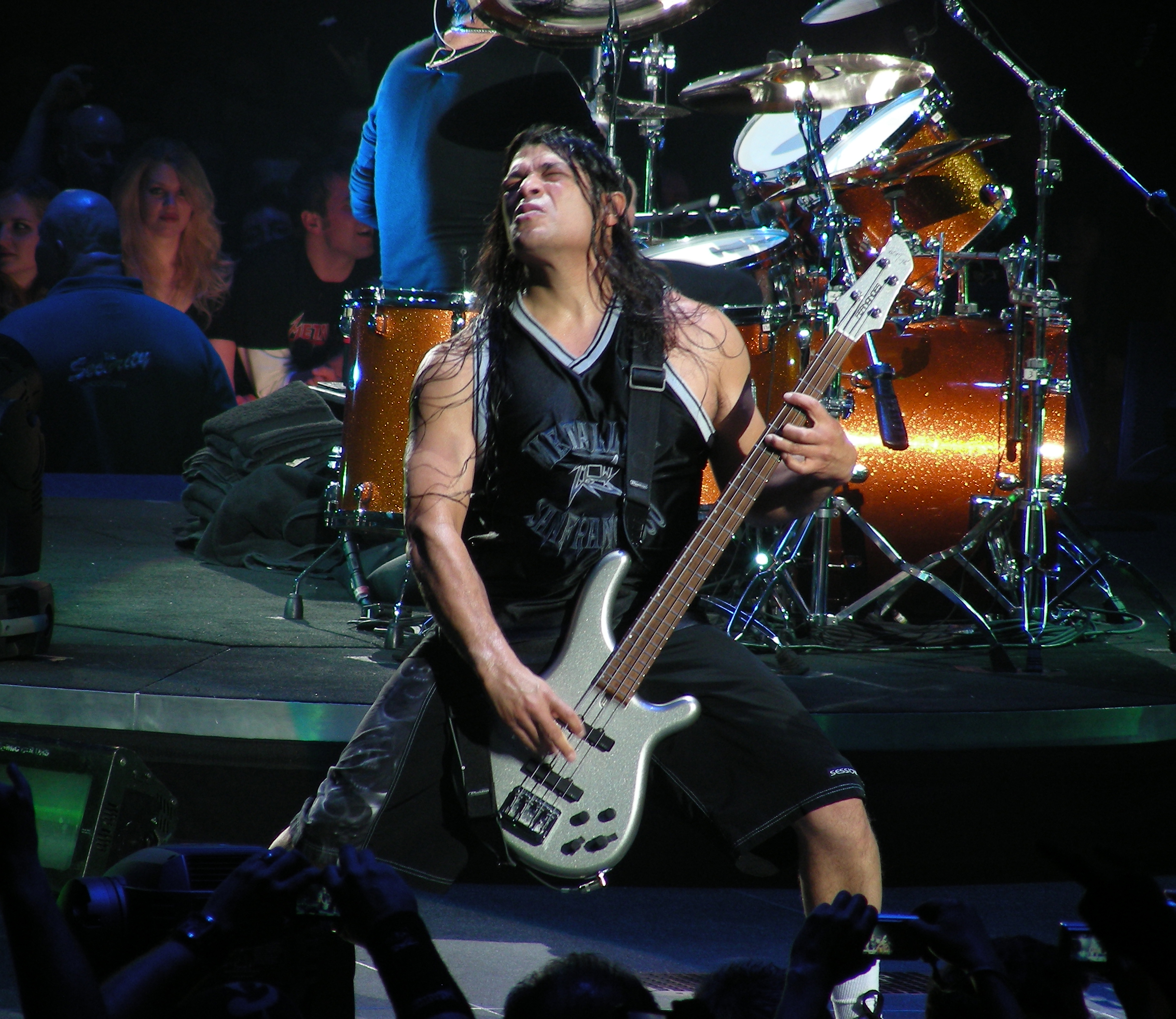 Robert Trujillo at Metallica concert on 2009-03-30 (Death Magnetic Tour, Ahoy Rotterdam)